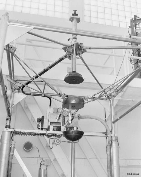 The Lady Godiva device in the scrammed state. An unreflected 54Kg sphere of 93.7% pure 235U. References review of criticality accidents - 2000 revision (pdf). Los Alamos Scientific Laboratory (2000-05). Retrieved on 2008-02-29.